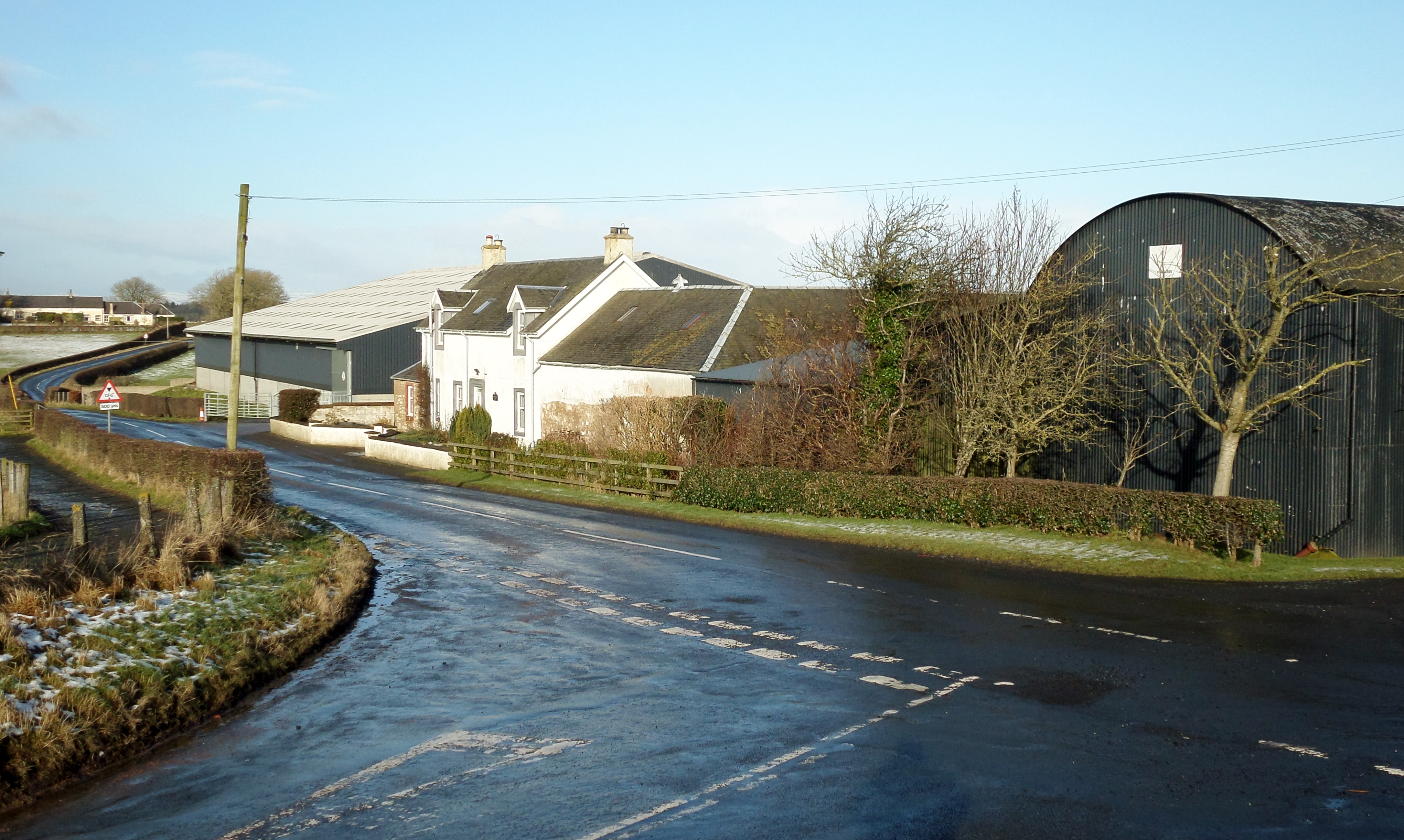 Fort Acres Farm, Symington, East Ayrshire, Scotland.